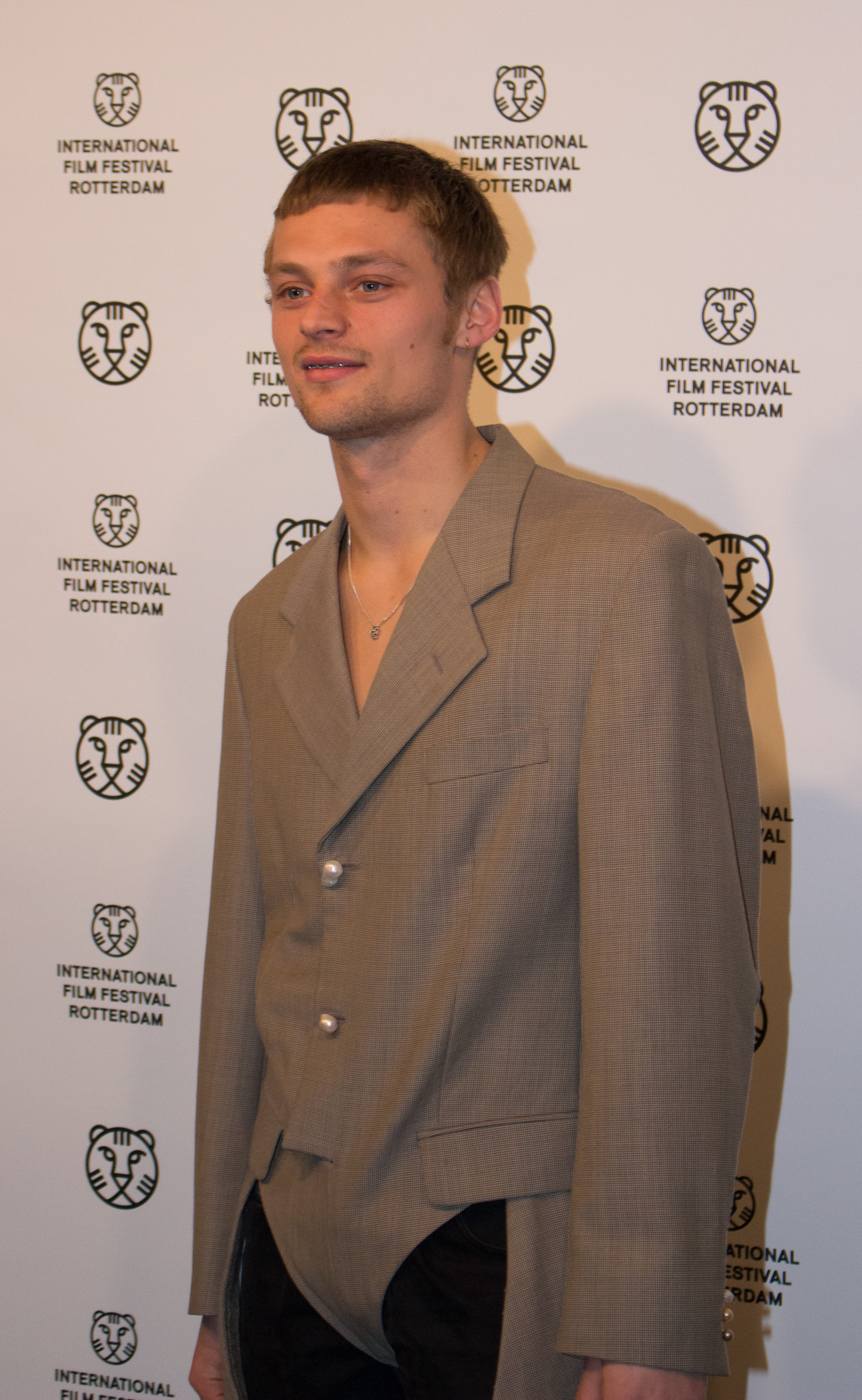 cast & crew of "Paradise Drifter" at the 49th International Film Festival Rotterdam